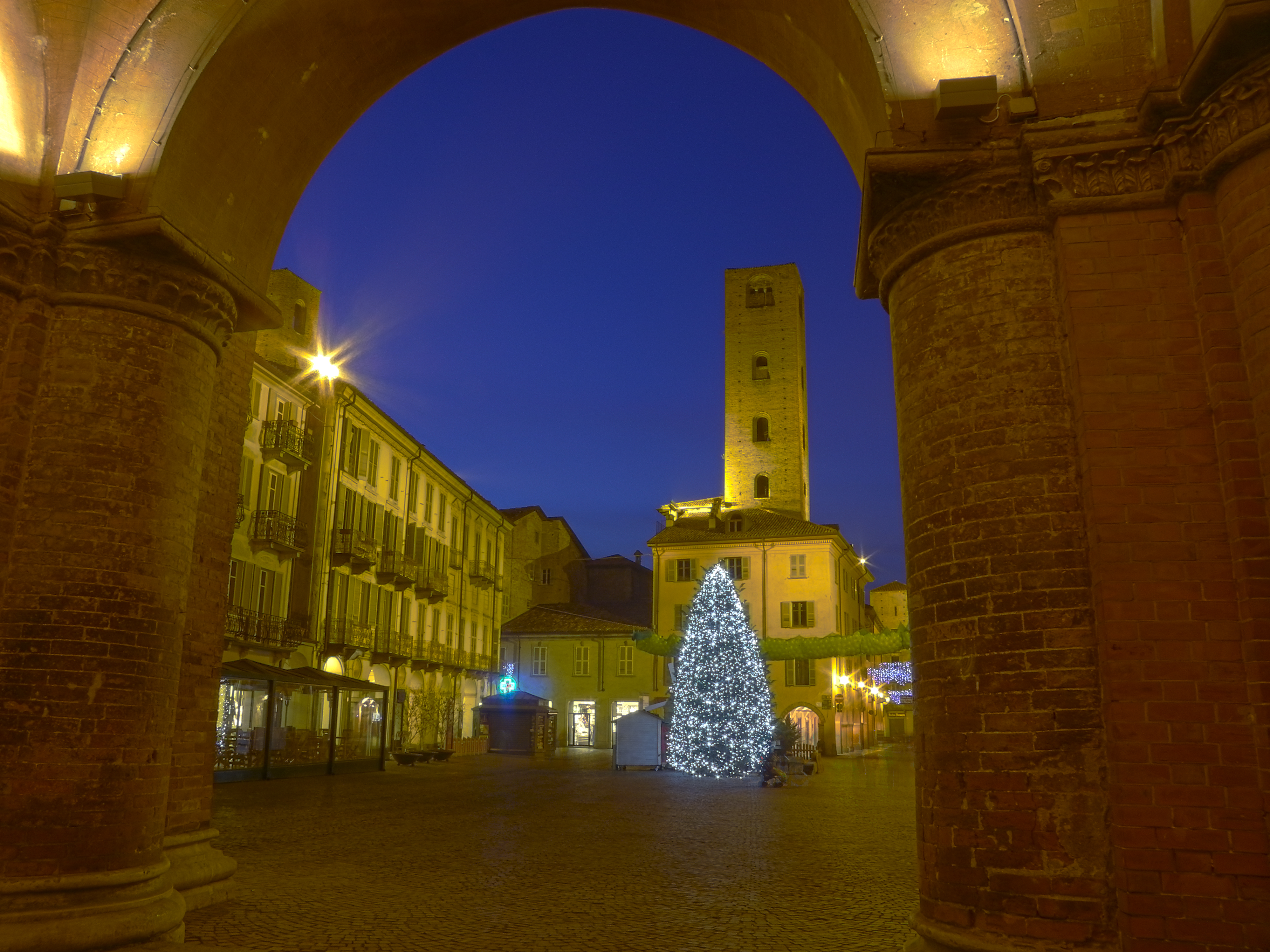 Risorgimento Square from Cathedral